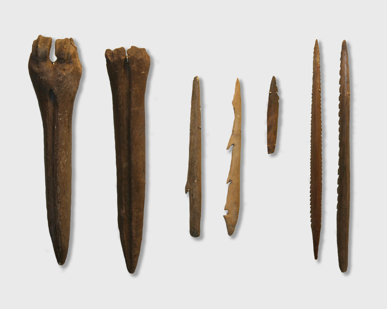 Photo of tools used by Kunda Culture at The Estonian History Museum